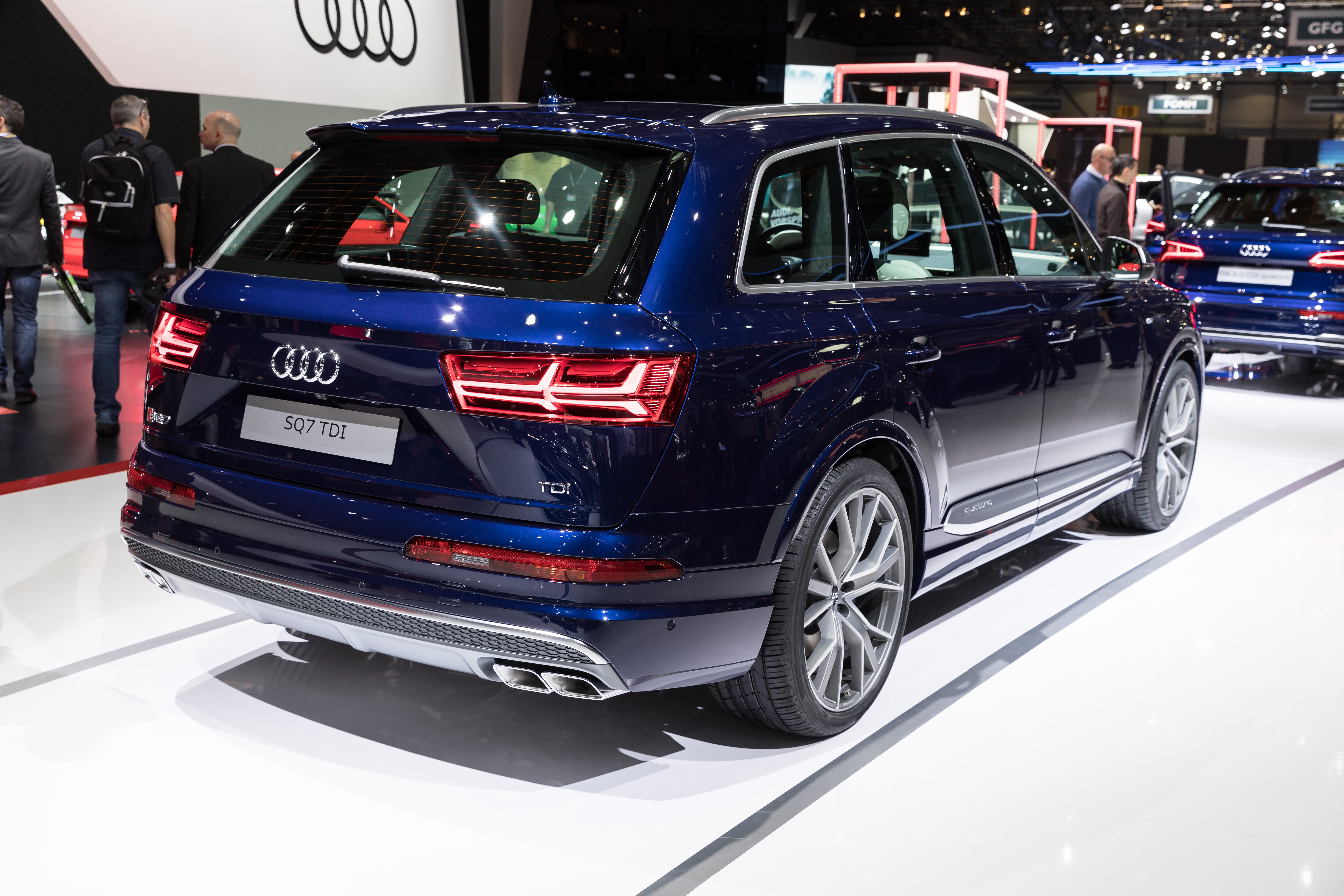 Geneva International Motor Show 2018